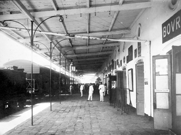 The first railwaystation in Semarang, Java